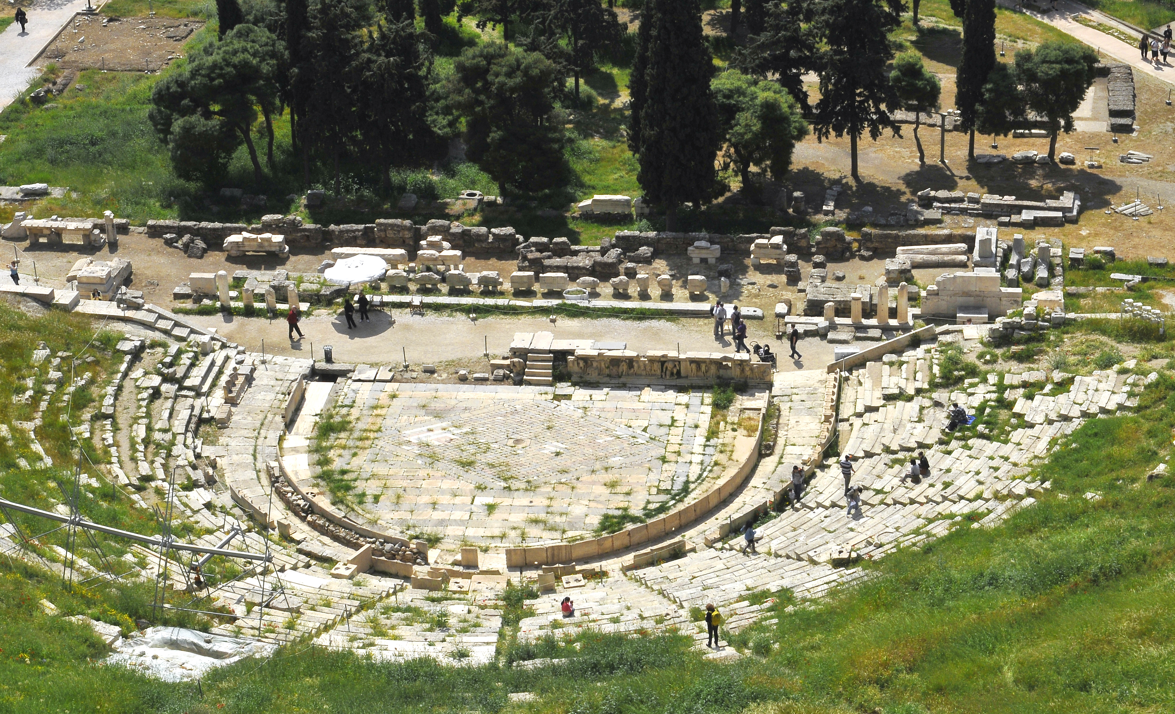 Theatre of Dionysos fron the Acropolis. Athens, Attica, Greece